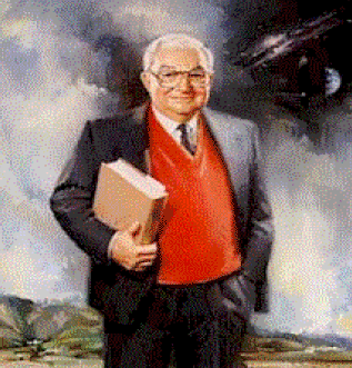 The painting of Congressman George Brown which adorns a wall of the House Science Committee Hearing Room in the Rayburn House Office Building.